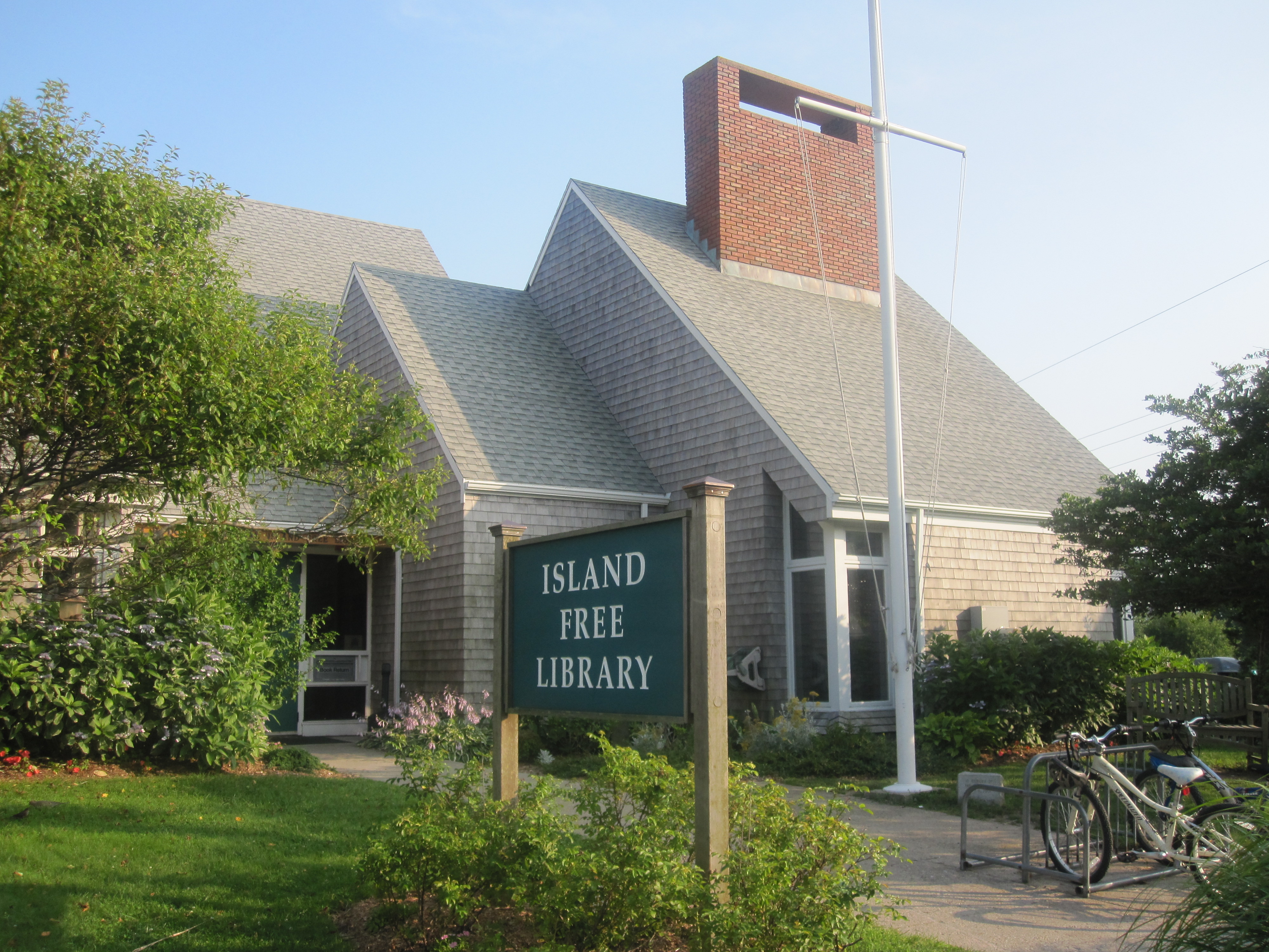 Block Island Library